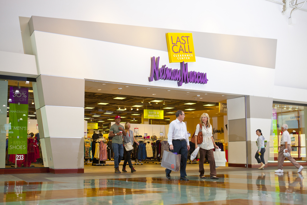 This is a photo taken at Grapevine Mills, the store in the photo is a division